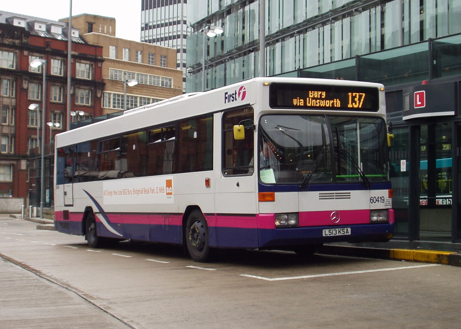 First Manchester bus 60419 (reg. L513 KSA), a 1993 Mercedes-Benz O 405 single-decker with Wrightbus Cityranger bodywork, pictured in Manchester's Shudehill bus station. It was new to Grampian Regional Transport as their fleet no. 513.